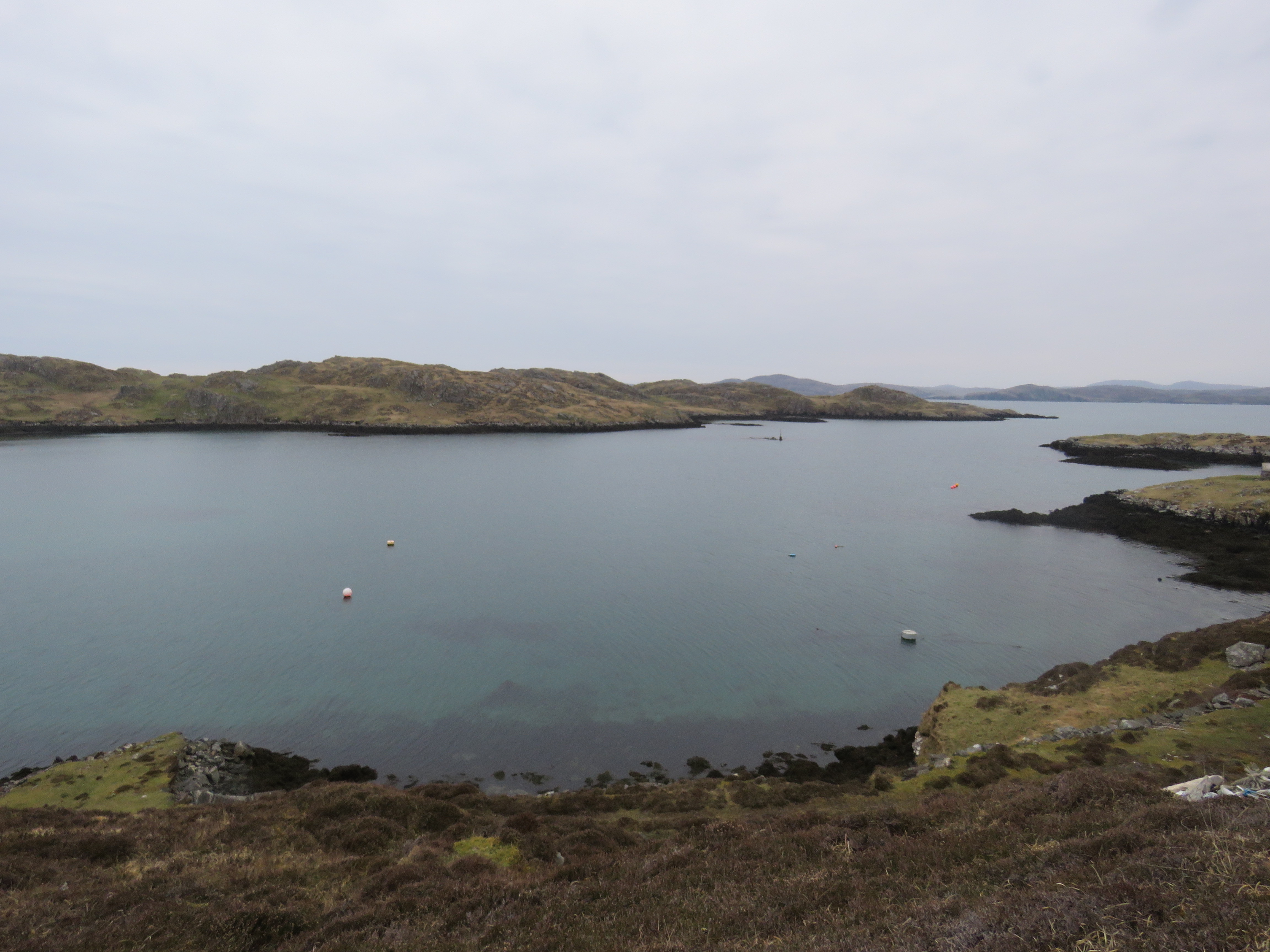 Little Bernera island, Outer Hebrides, Scotland